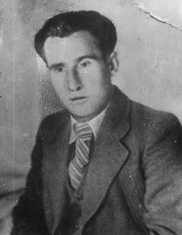 National hero of Yugoslavia Српски (ћирилица): Народни херој Југославије